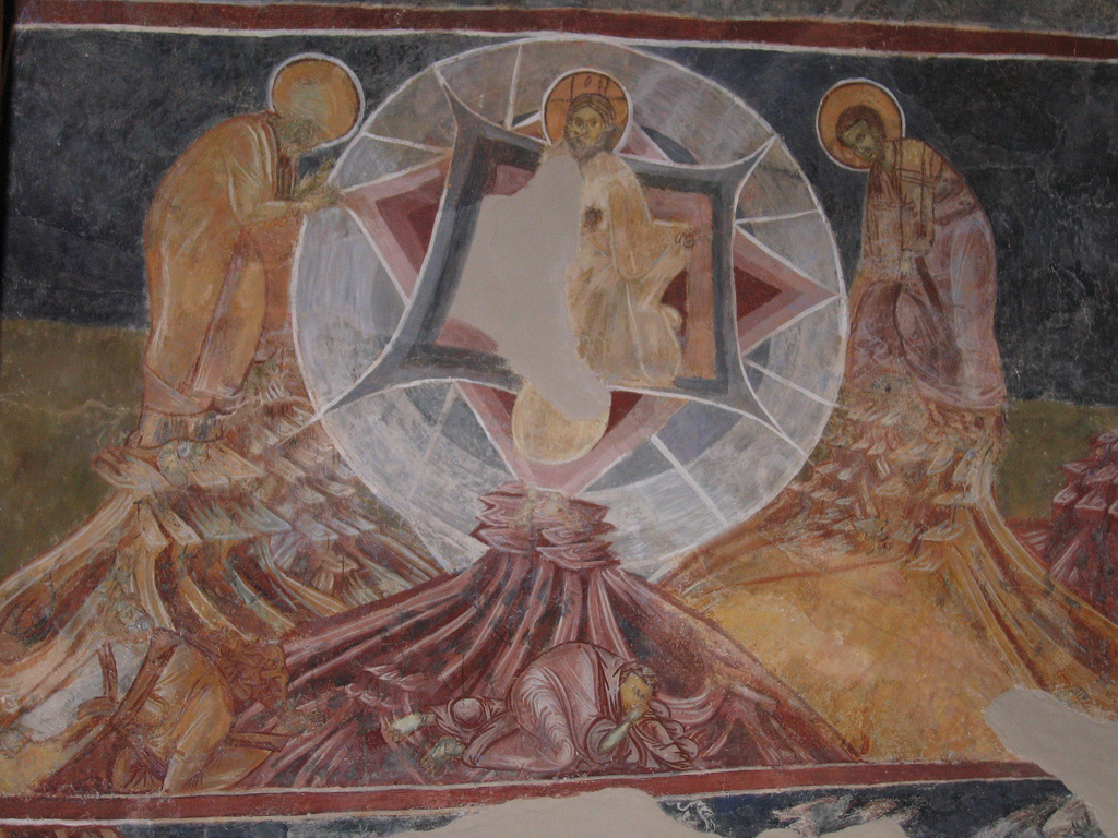 Trasfiguration-fresco, in St. George Church in Kurbinovo, Macedonia